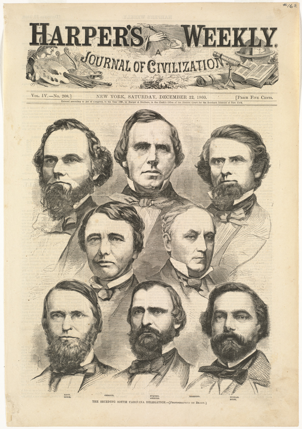 File name: 10_09_000187 Title: The seceding South Carolina delegation Creator/Contributor: Homer, Winslow, 1836-1910 (artist) Date issued: 1860-12-22 Physical description: 1 print : wood engraving Genre: Wood engravings; Periodical illustrations Notes: Published in: Harper's Weekly, Volume IV, No. 208, 22 December 1860, p. 801.; Image caption: Keitt, Boyce, Chesnut, M'Queen, Ashmore, Hammond, Bonham, Miles.; Photographed by Brady. Collection: Winslow Homer Collection Location: Boston Public Library, Print Department Rights: No known restrictions Flickr data on 2011-08-11: Camera: Sinar AG Sinarback 54 FW, Sinar m Tags: Winslow Homer User: Boston Public Library BPL Depicted are: John Durant Ashmore Milledge Luke Bonham William Waters Boyce James Chesnut, Jr James Henry Hammond Laurence Massillon Keitt John McQueen William Porcher Miles